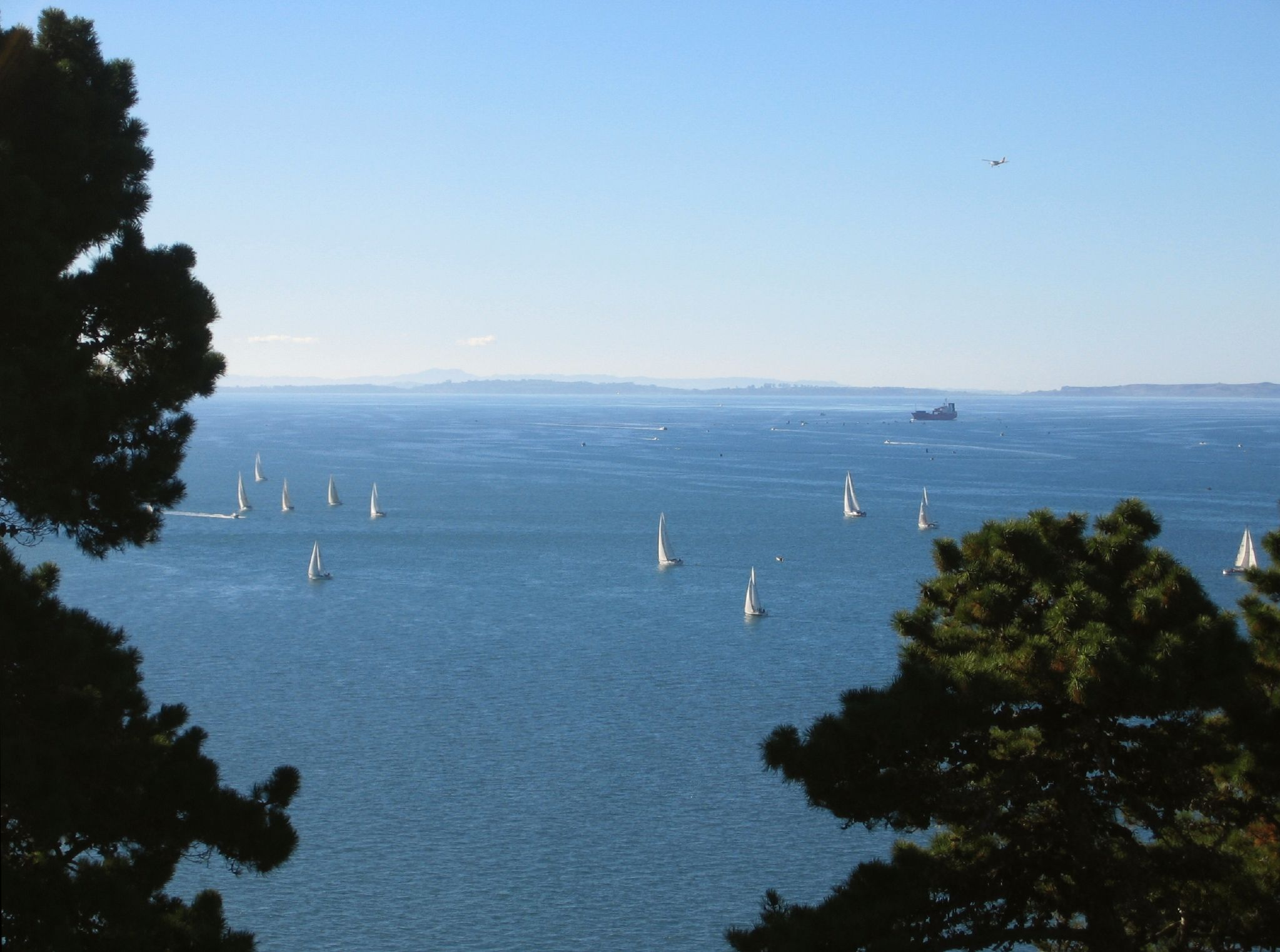 The Hauraki Gulf is a coastal feature of the North Island of New Zealand. It lies between Auckland, the Coromandel Peninsula, and the Hauraki Plains. Hauraki is Māori for north wind